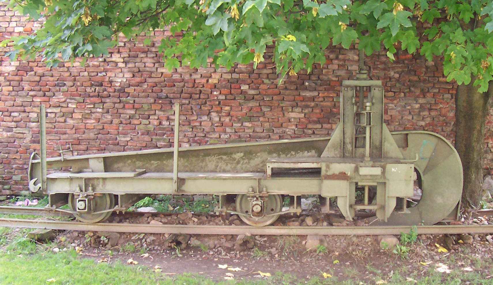 A railroad plough or Schienenwolf ('rail wolf') - (side view). Taken at the Belgrade Military Museum.